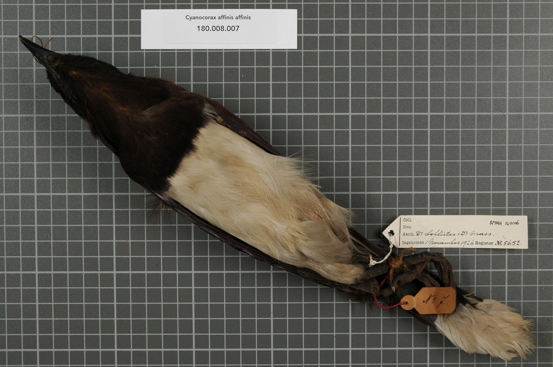 Cyanocorax affinis affinis Pelzeln, 1856